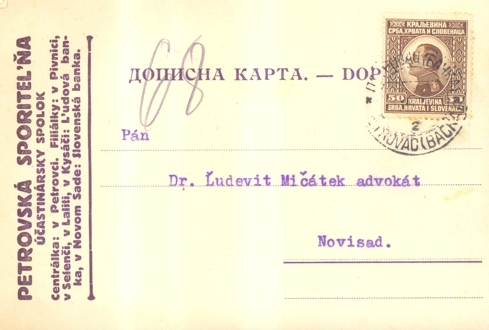 Correspondence card of the Savings Bank of Bački Petrovac addressed to Dr. Ľudovít Mičátek (1925). Inventory number 1483. Srpski (latinica): Dopisna karta Petrovačke štedionice adresirana na dr Ljudevita Mičatekа (1925). Inventarski broj 1483.